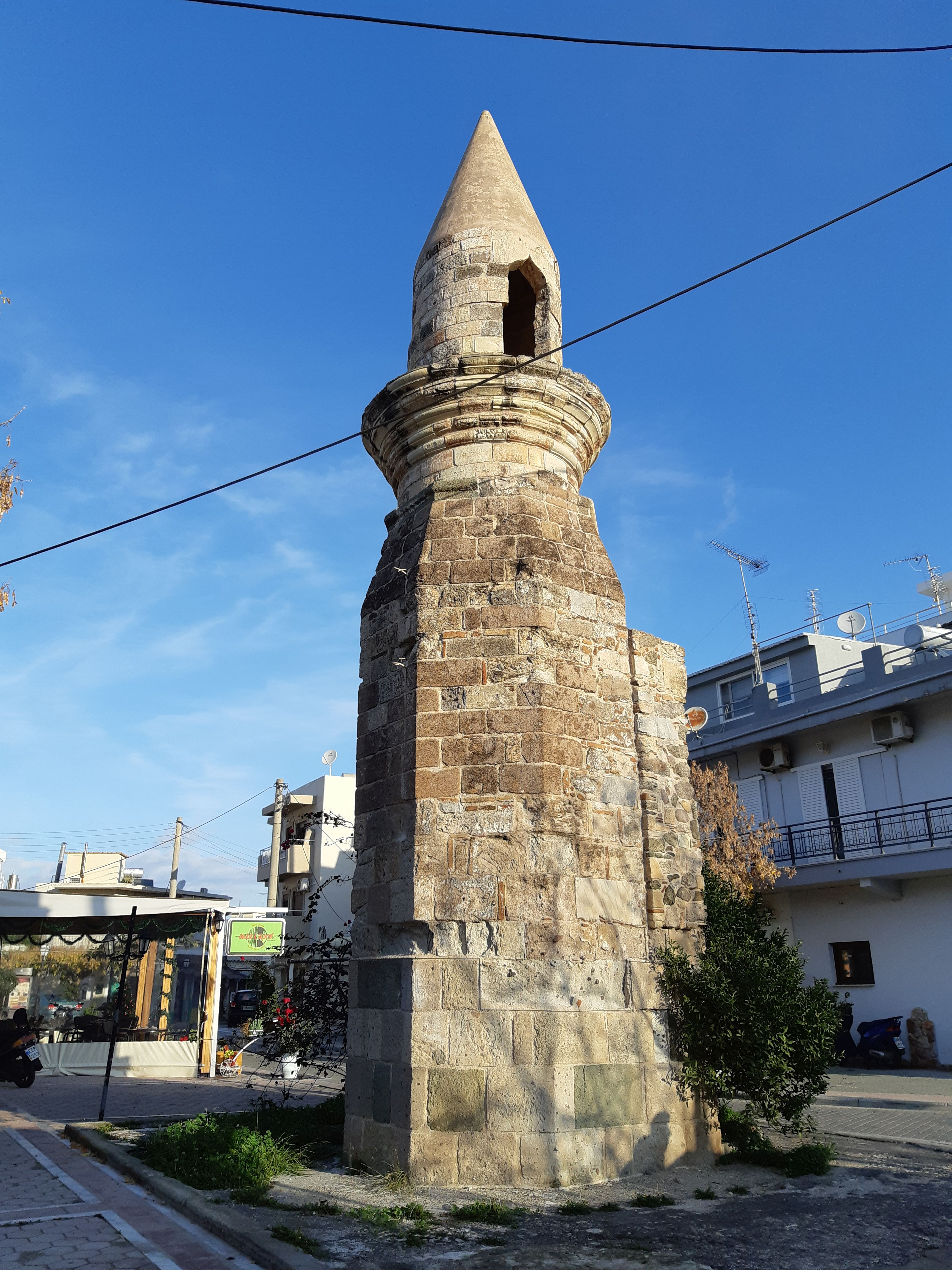 Destroyed Bab Gedid Mosque or Eski (old mosque) in the city of Kos on the Greek island of Kos.